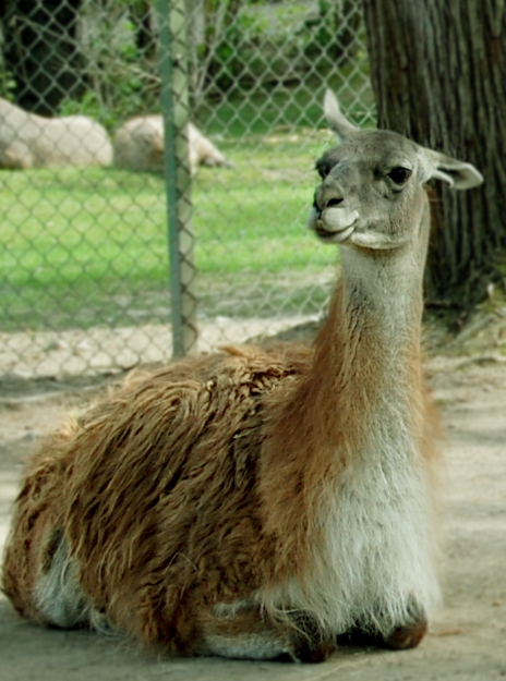 Photo of a llama.